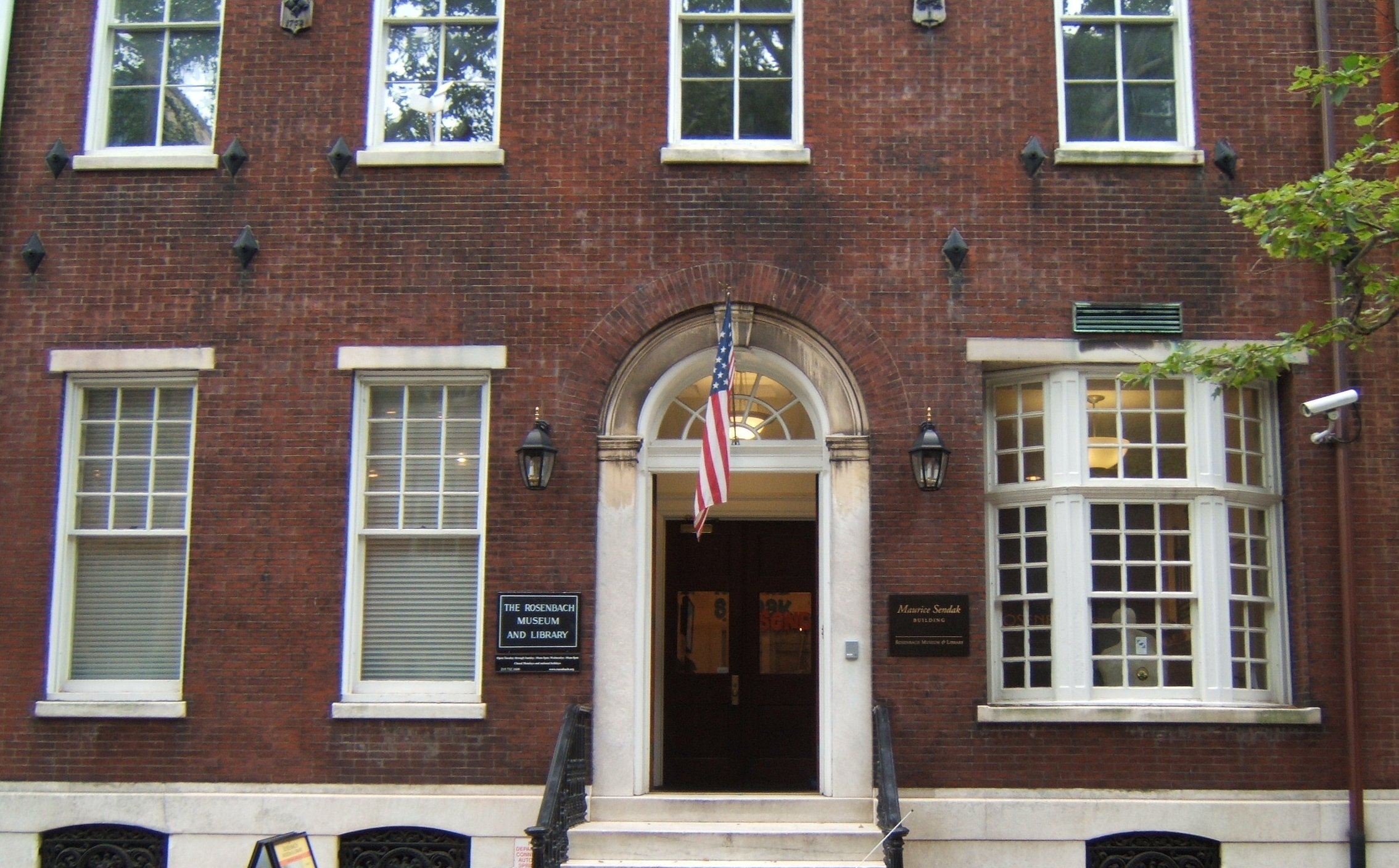 Rosenbach Museum and Library 2008-2010 Delancey Place Philadelphia, PA 19103 Home of Dr. A.S.W. Rosenbach (1876-1952) and his brother Philip, book dealers and collectors The Maurice Sendak Building, ca. 1860 Townhouse